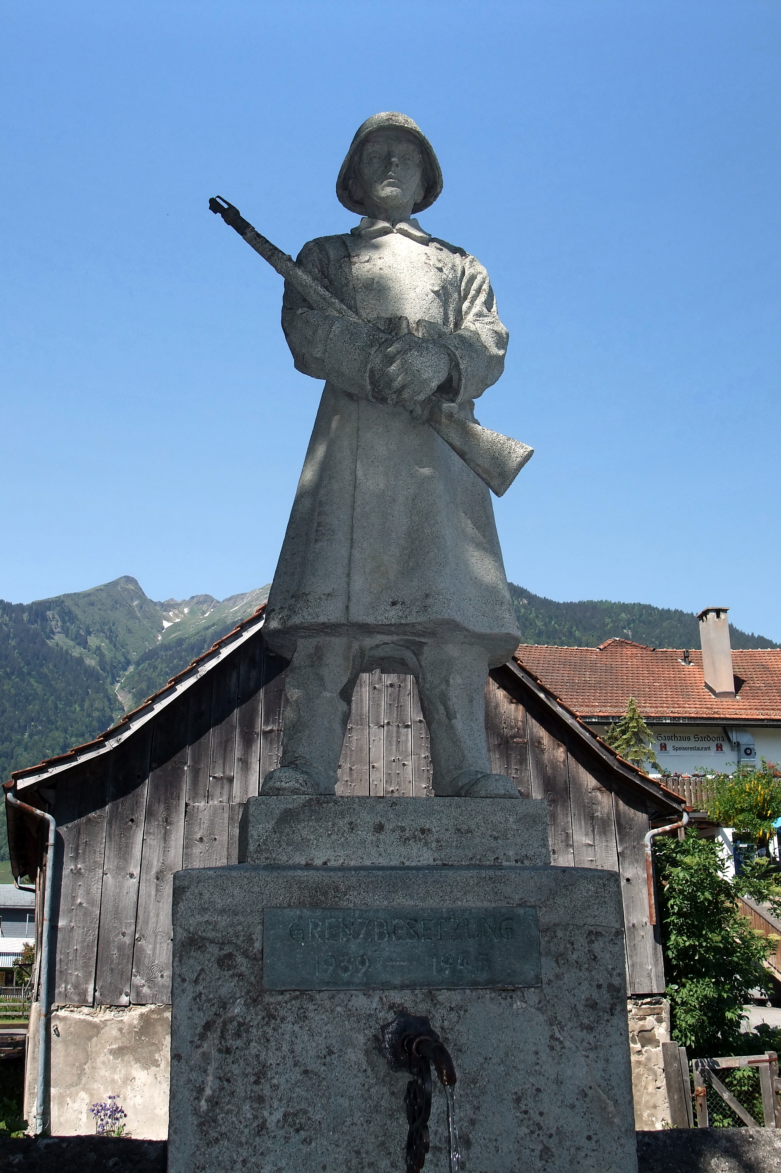 'Border occupation 1939-1945'. The whole plain around Sargans belonged to the eastern part of the Réduit during the second World War. A rest of Switzerland to defend with all means against the Third Reich. Times have changed. We defend our banks now. Today's Réduit is our sovereignty. Switzerland, June 17, 2013.